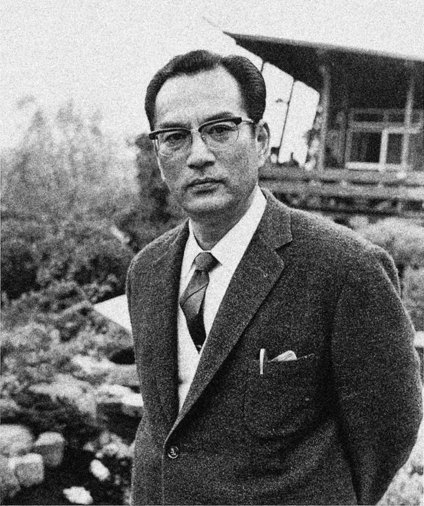 A photograph of Seiichi Miyake.